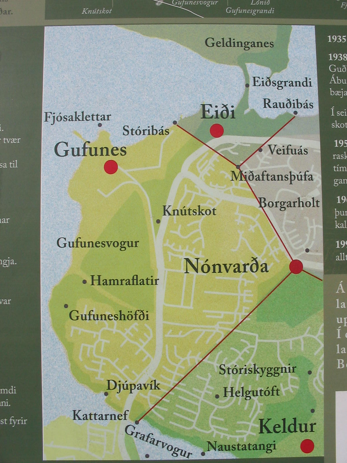 Map of Gufunes (district and cape in Reykjavik, Iceland) from info table